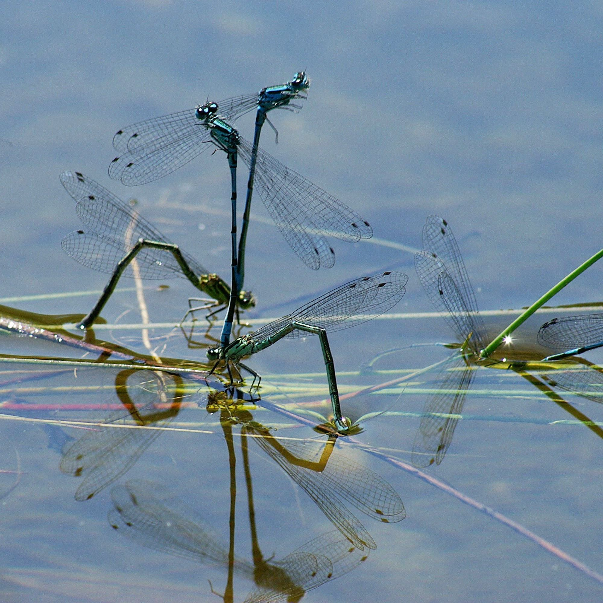 Azure Damselfly laying eggs